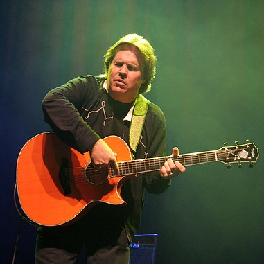 Doyle Dykes in Raalt, the Netherlands